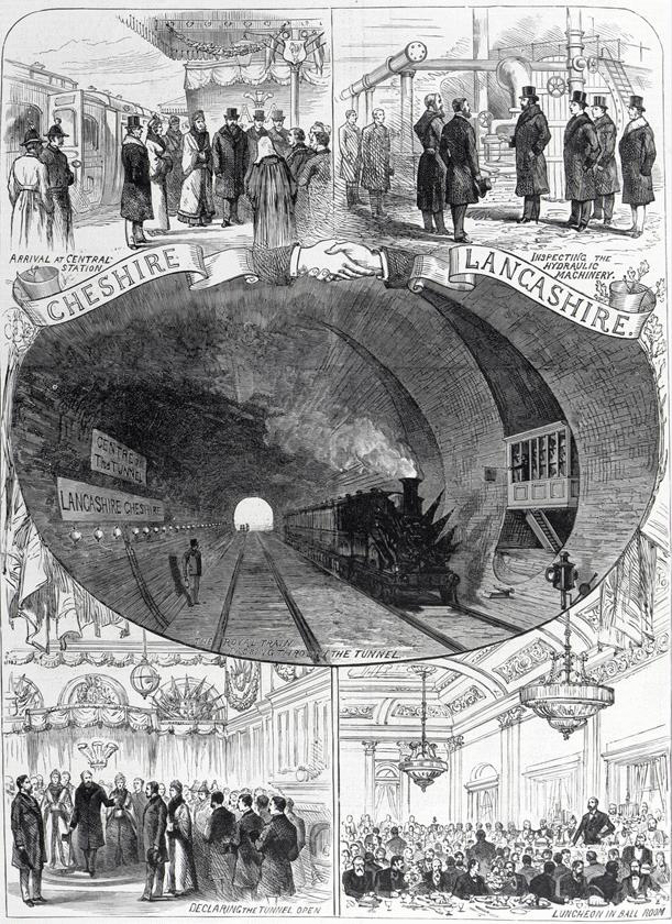 An illustration taken from Illustrated London News vol 88, p.112 showing the opening of the Mersey Railway Tunnel by the Prince of Wales on 20 January 1886.